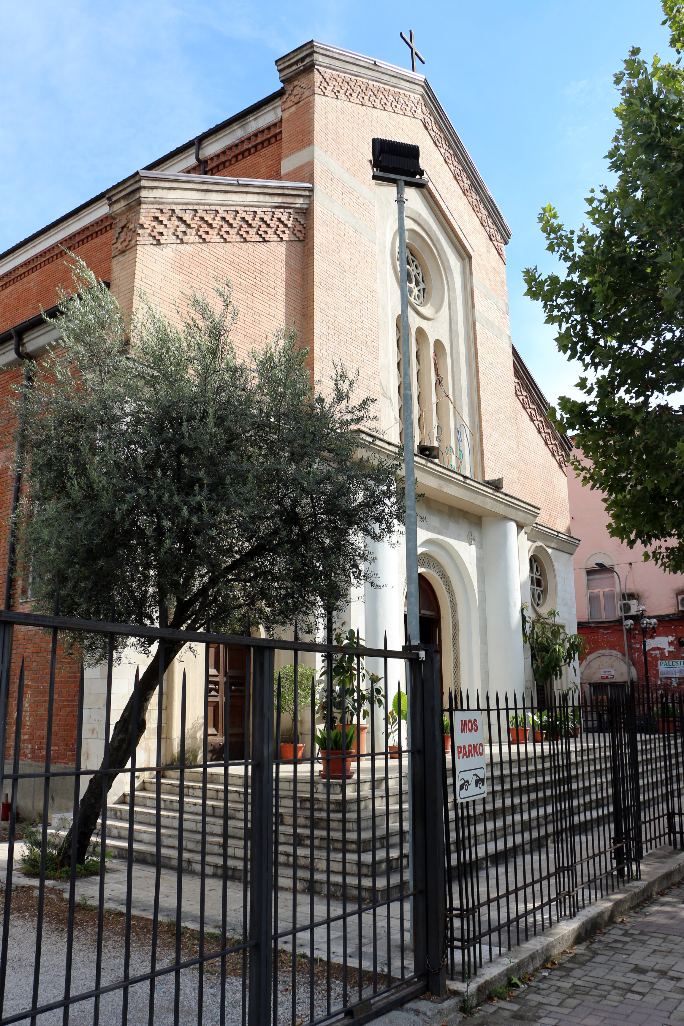 Churches in Tirana